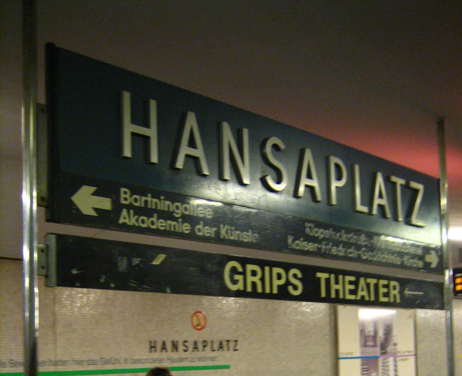 Station sign in the Berlin U-Bahn station Hansaplatz